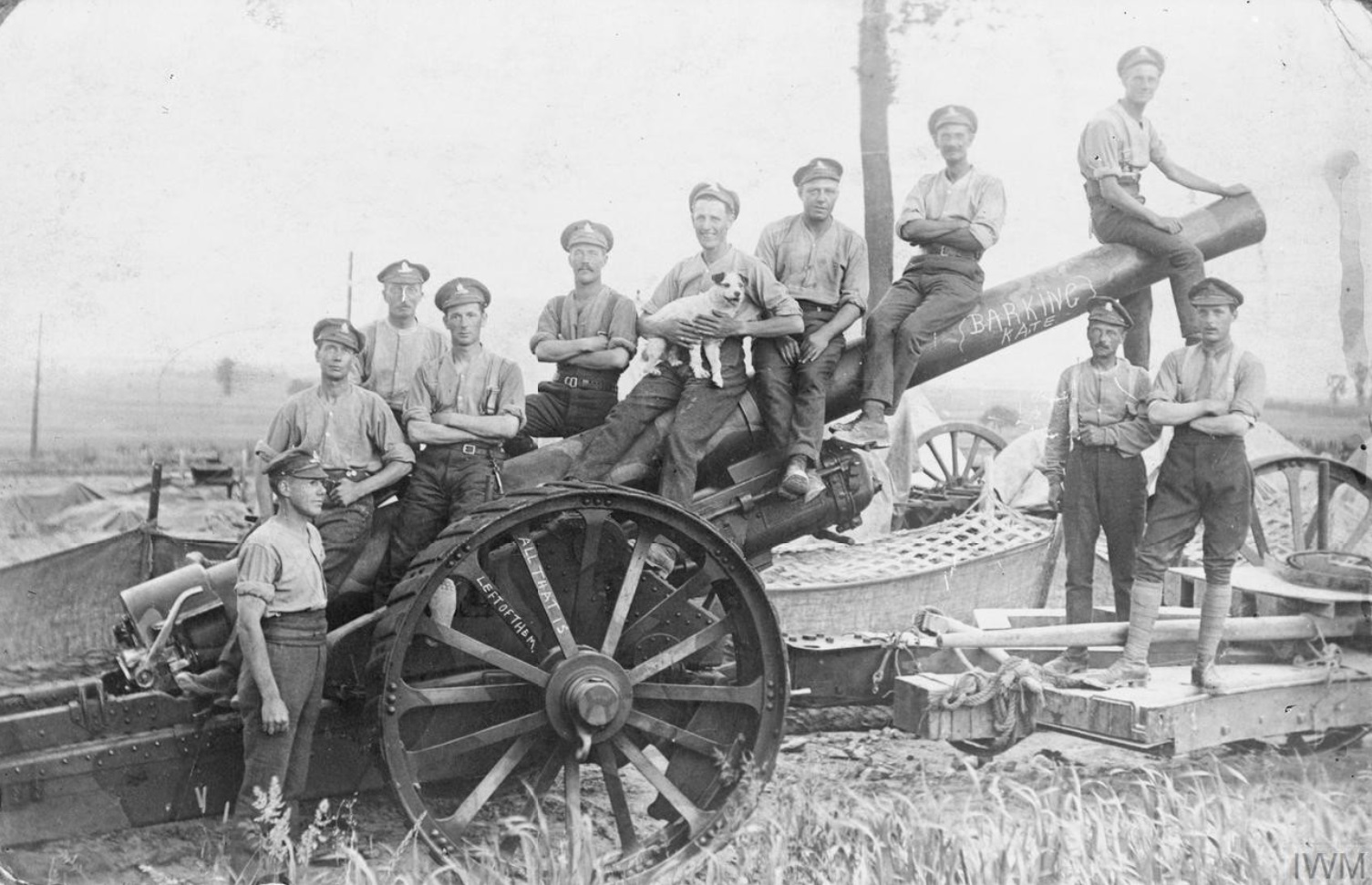 6-inch Mark XIX gun of 484th Siege Battery R. G. A. ("Barking Kate") and small detachment of men. Pas Railhead, near Doullens, February or March 1919. The actual gun depicted is now an imperial War Museum Exhibit.